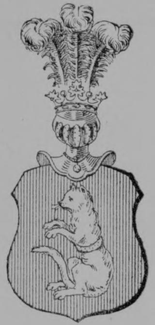 Coat of arms Kot Morski from Księga herbowa rodów polskich by J.K. Ostrowski